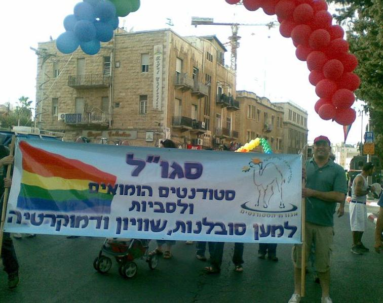 "Sagol" - the gay student group of Beer-Sheva, Israel : in the Jerusalem pride parade 2008. Jerusalem, Israel.